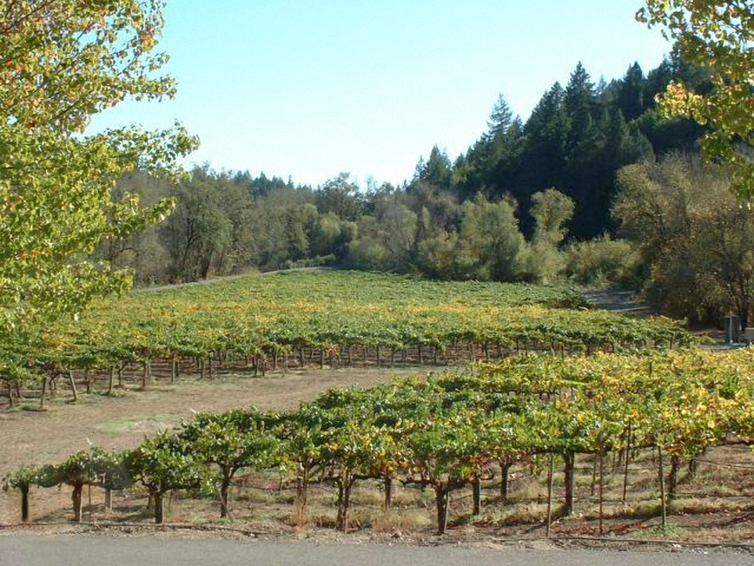 A Pinot Noir vineyard at the Hartford Family Winery in the Russian River Valley AVA of Sonoma County, California.